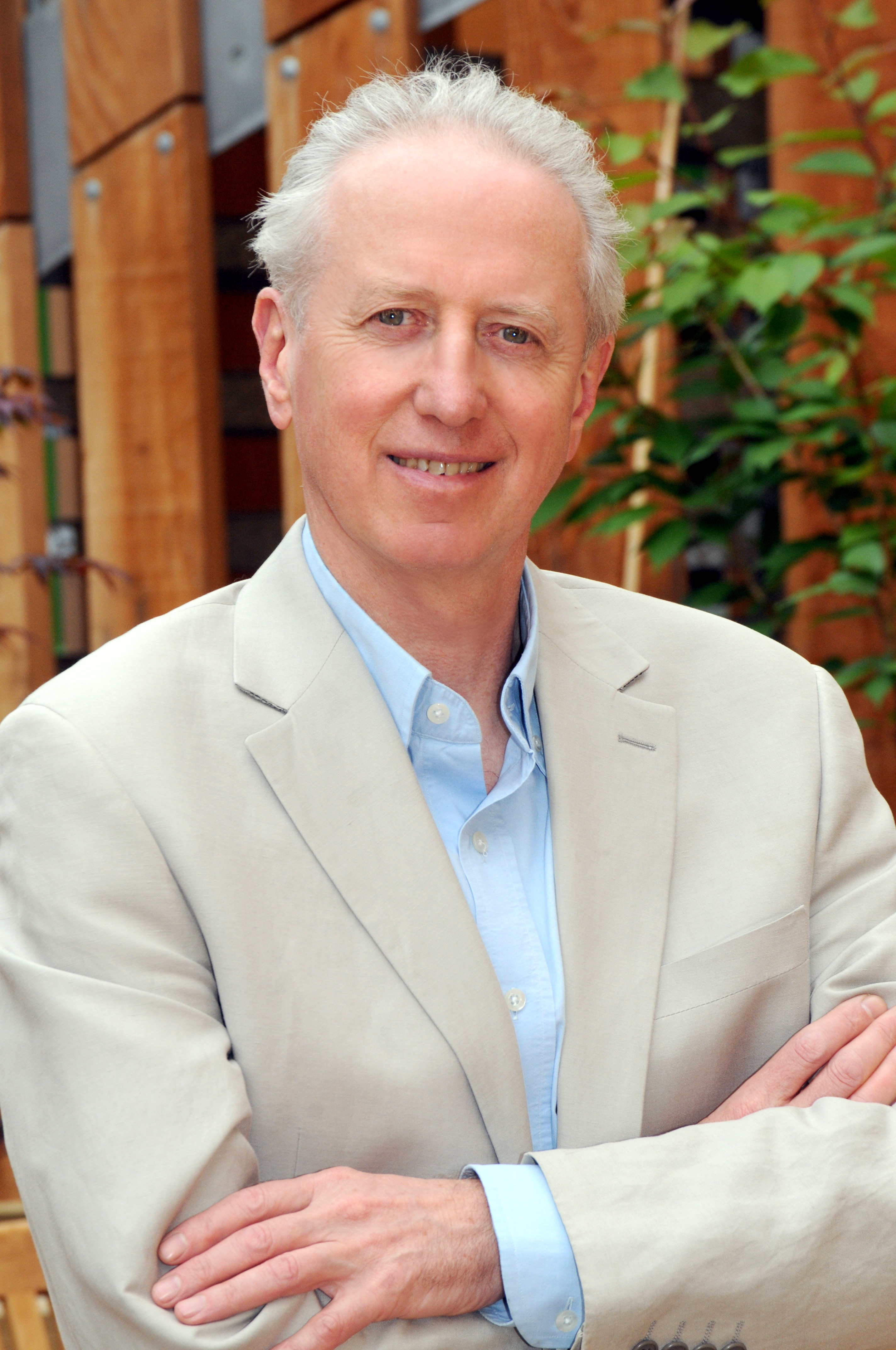 Image of Andrew Haines